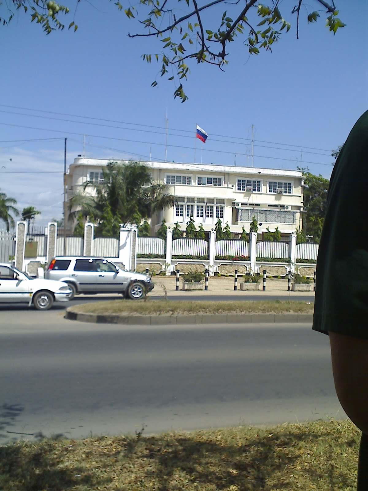 Embassy of the Russia Federation in Dar es Salaam, Tanzania.